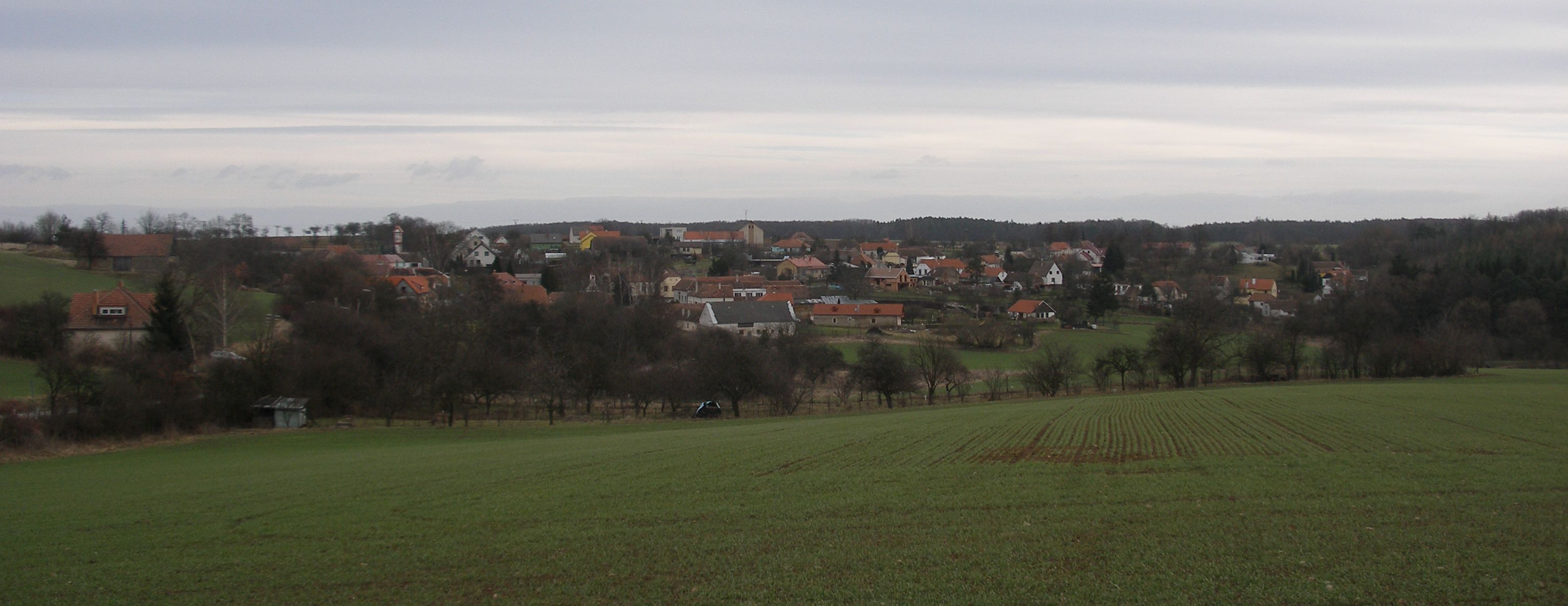 view of Podmoli